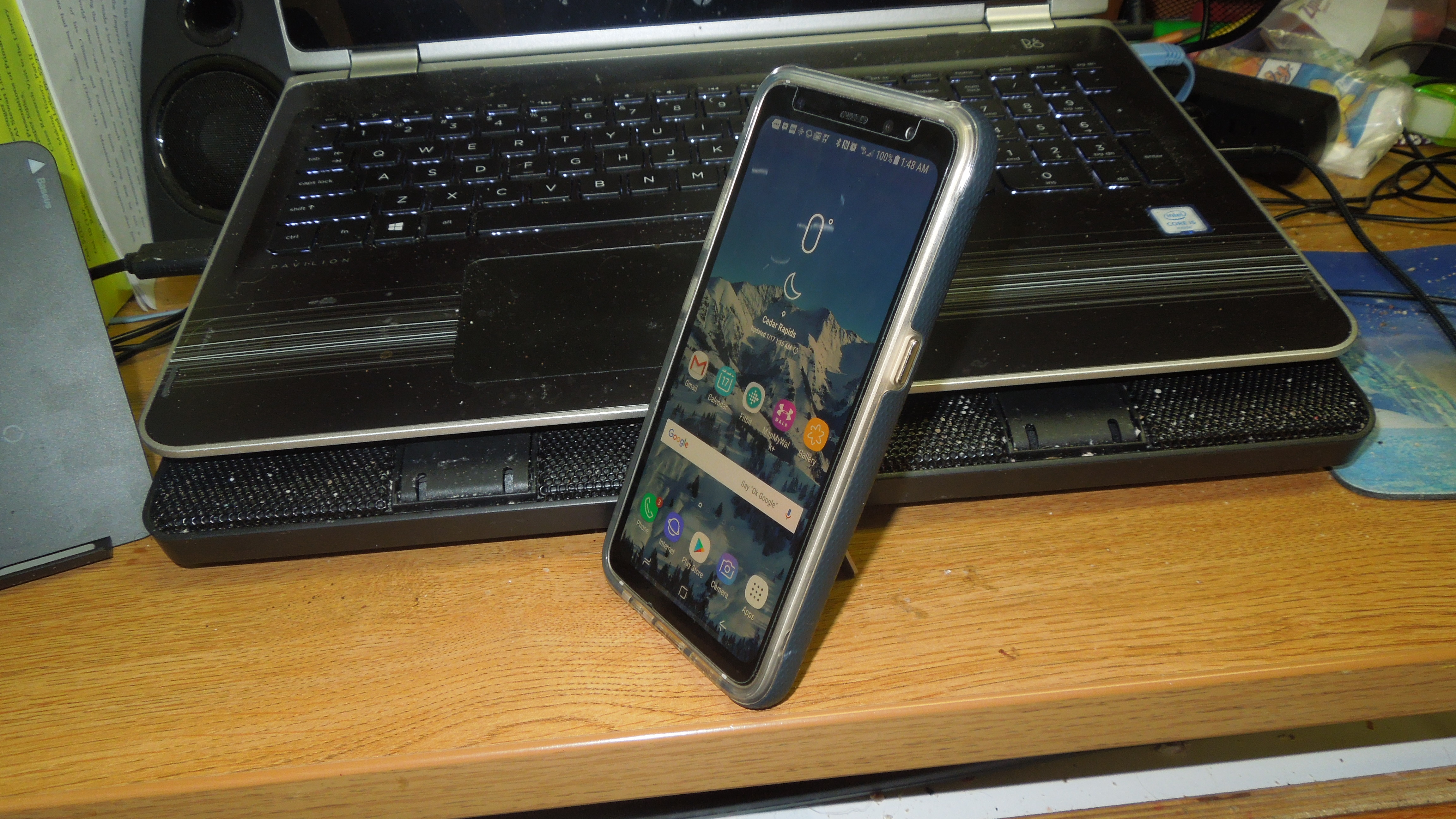 A Samsung Galaxy S8 Active outfitted with a case